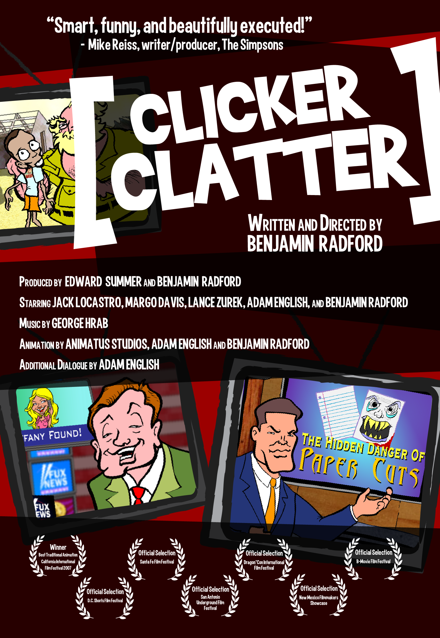 Promotional poster created for the 2007 animated short film Clicker Clatter.